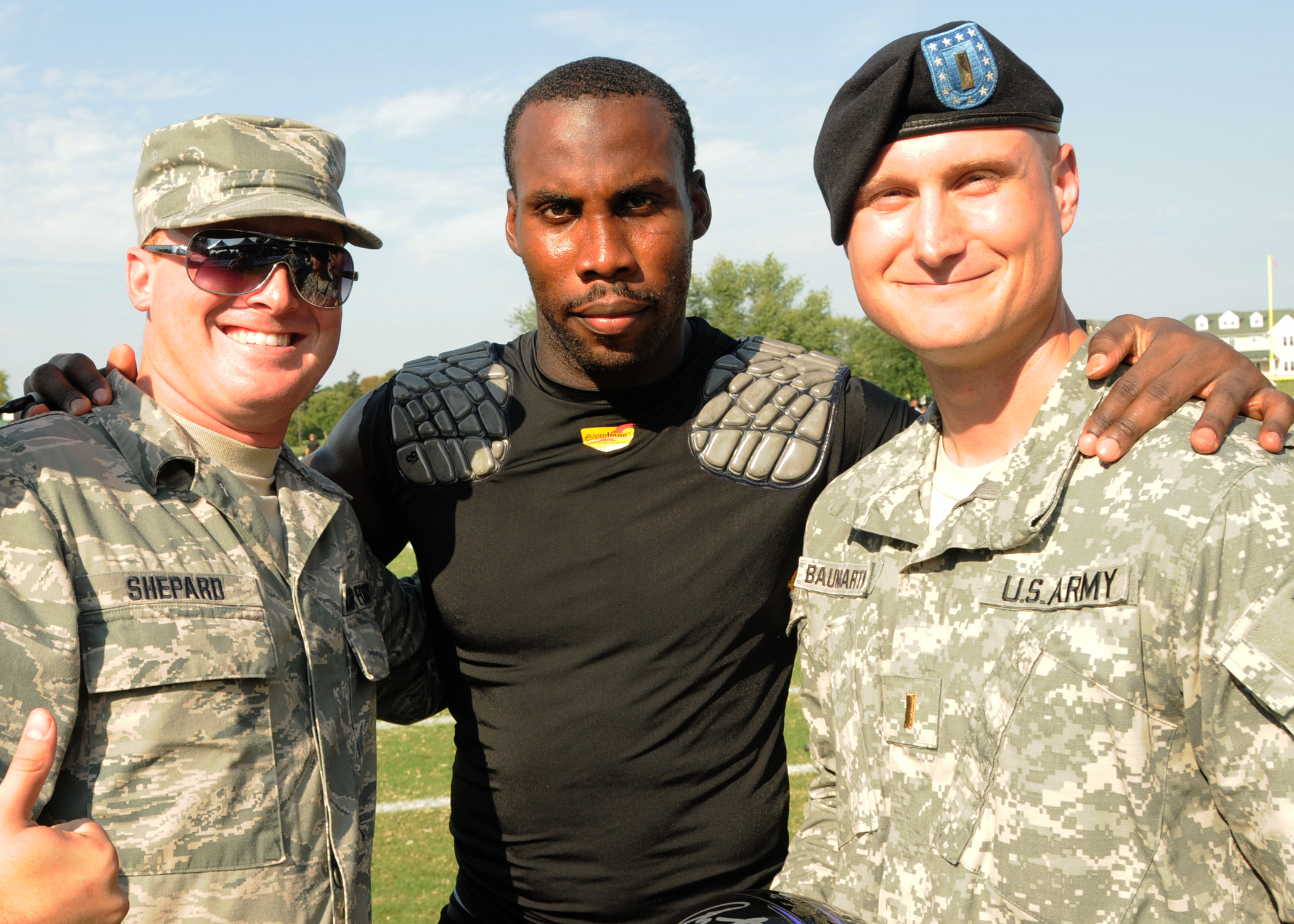 Baltimore Ravens wide receiver Anquan Boldin shows his support of the members of the U.S. Armed Forces while taking a photo with U.S. Army Lt. Kris Baumgartener and Senior Airman Shepard at McDaniel College, Westminster, Md., August 17, 2010.